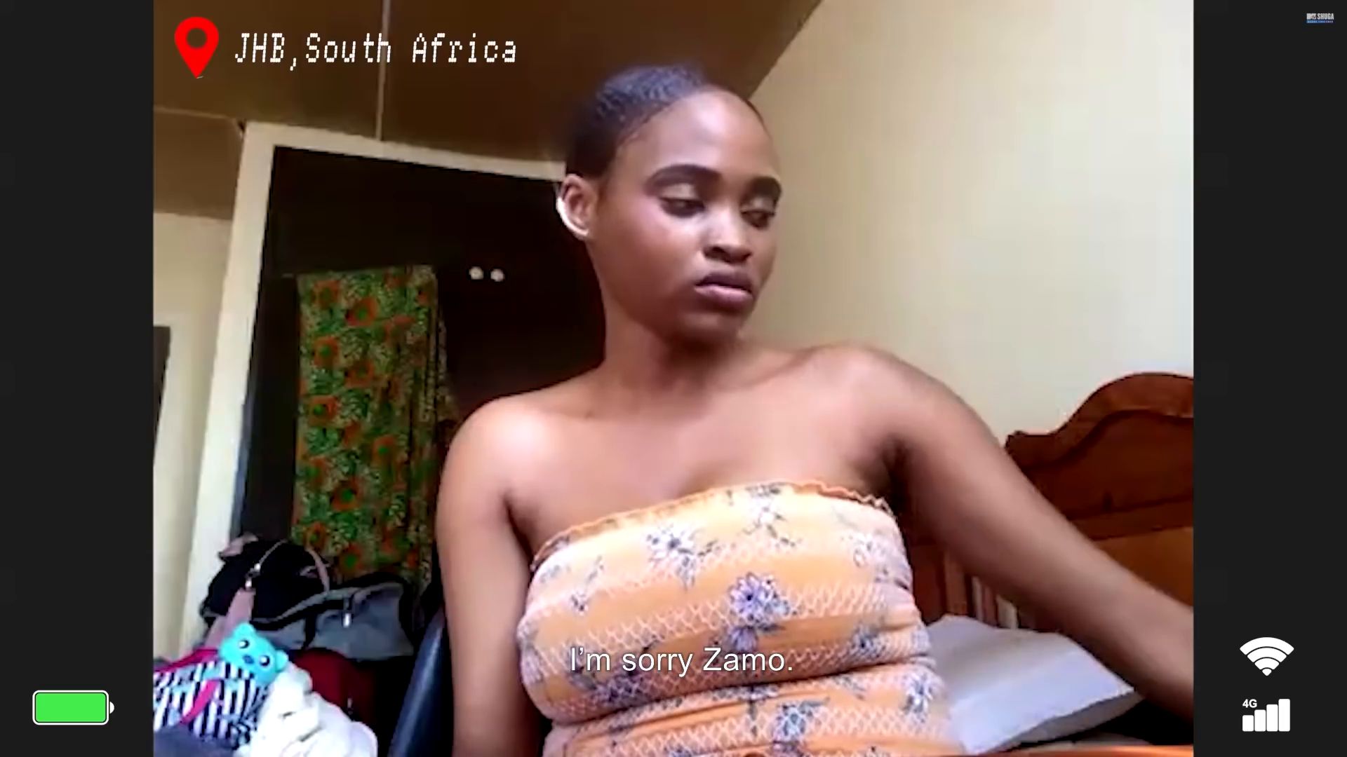 Mamarumo Marokane and Lerato Walaza (Zamo) from MTV Shuga series 7